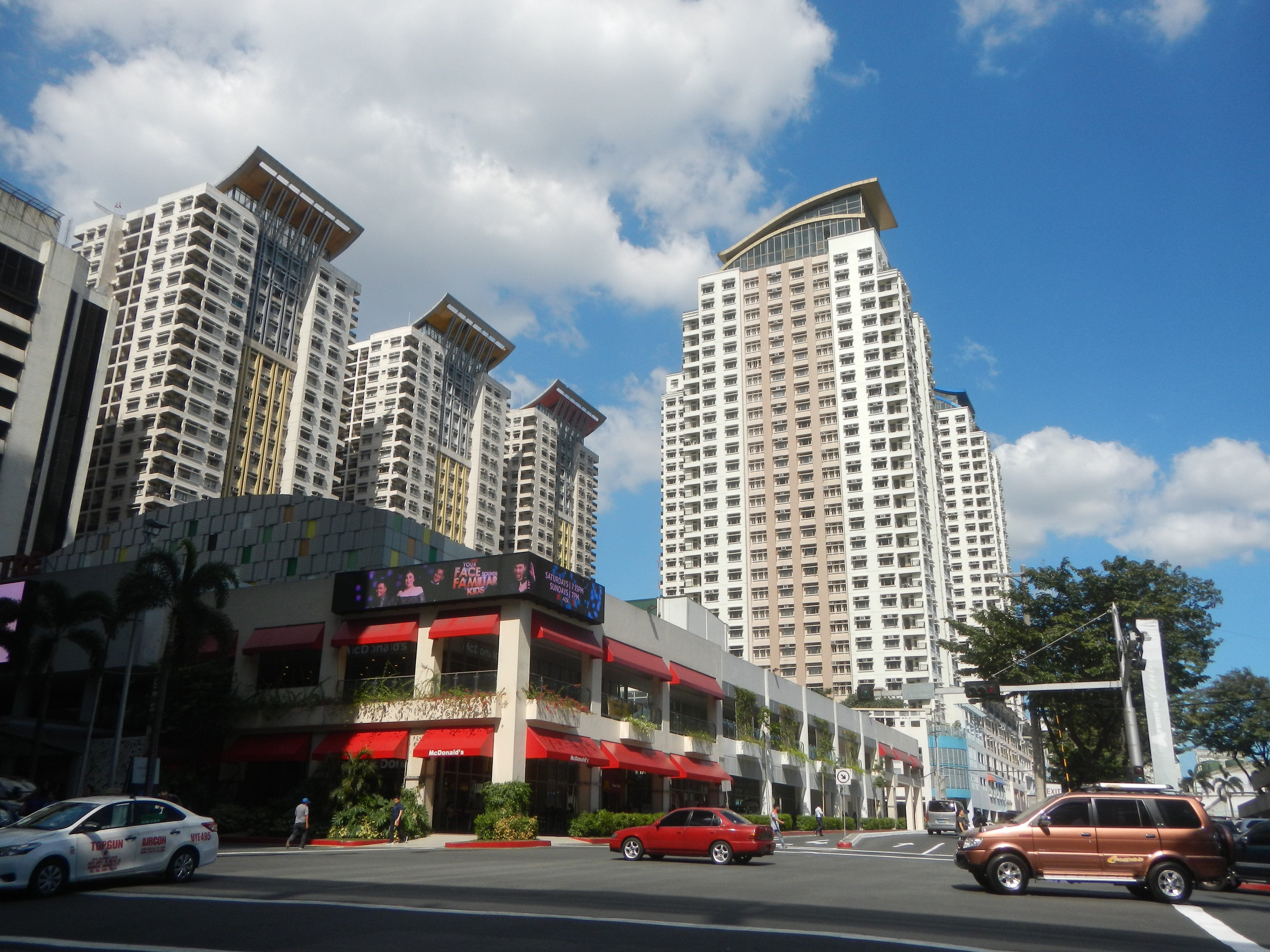 Gateway Mall (Araneta Center) Araneta Center Cubao 14°37'13"N 121°3'15"E Smart Araneta Coliseum Araneta_Center Jesus Christ is the Lord Universal (Araneta Center Socorro, Cubao, Quezon City) UCKG Help Center Gateway Tower (Araneta Center Socorro, Cubao, Quezon City) DreamWorld Hotel National Bookstore Buildings in General Roxas Avenue, General Malvar Avenue & General Aguinaldo Avenue from EDSA (road) and Aurora Boulevard, Quezon City List of barangays of Metro Manila Legislative districts of Quezon City Districts IV, Barangays of Quezon City, Barangay Socorro, Quezon City, Quezon City (Note: Judge Florentino Floro, the owner, to repeat, Donor Florentino Floro of all these photos hereby donate gratuitously, freely and unconditionally all these photos to and for Wikimedia Commons, exclusively, for public use of the public domain, and again without any condition whatsoever).